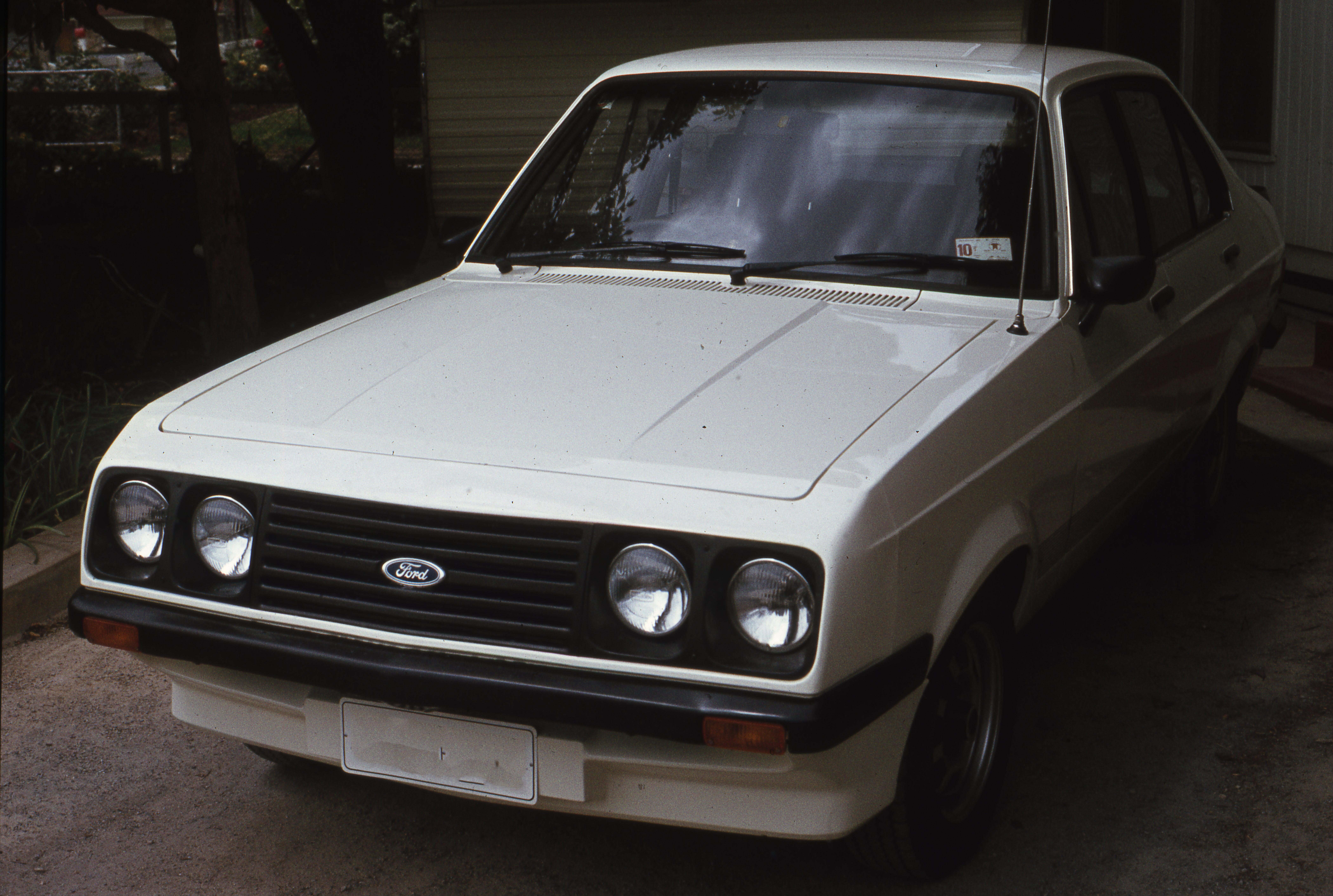 The Australian Ford Escort RS2000 was built with standard equipment, it was not a performance vehicle, the model pictured is the 4-door version